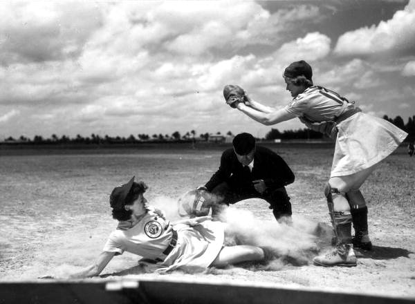 Local call number: c009833 Title: [All American Girls Professional Baseball League player Marg Callaghan sliding into home plate as umpire Norris Ward watches : Opalocka, Florida] Date: Photographed on April 22, 1948. Physical descrip: 1 photoprint : b&w ; 4 x 5 in. Series Title: (Department of Commerce collection) General Note: Accompanying note: "Single Slide-only one slider. Hook slide into home plate during Ft. Wayne inter-team practice game on Opalocka diamond: Marg Callaghan, 26, from Vancouver (5th year in league 4th coming up with Ft. Wayne) as second baseman, slides in on close play--umpire Norris Ward whose 4th year in league is coming up, watches play closely. Vivian Kellog, catcher from Jackson, Mich., reaches for ball coming in fast." Repository: 500 S. Bronough St., Tallahassee, FL 32399-0250 USA. Contact: 850-245-6700. Persistent URL